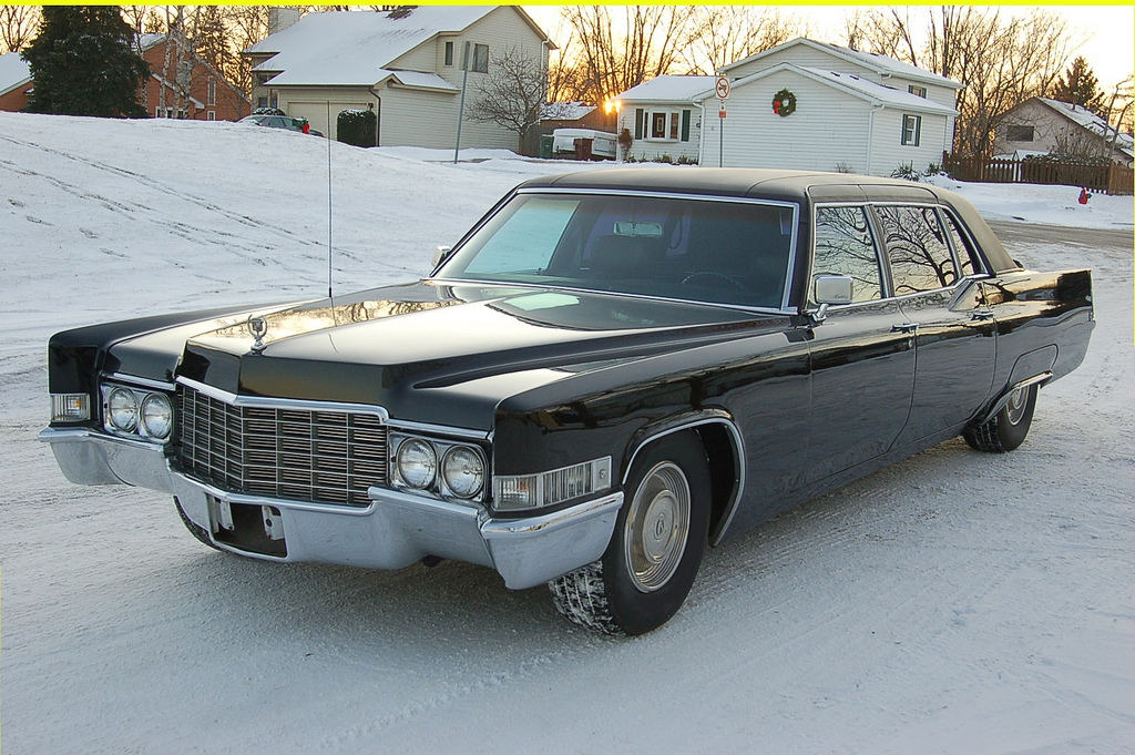 1969 Cadillac Fleetwood 75